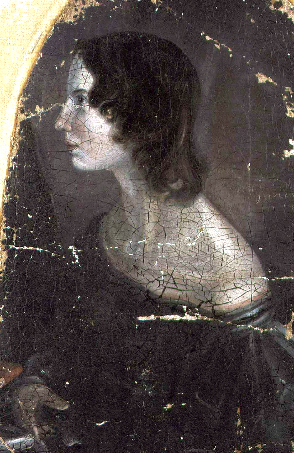 oil on canvas, arched top. The identity of this picture is now disputed; sources are in disagreement over whether this image is of Emily or Anne.[1]